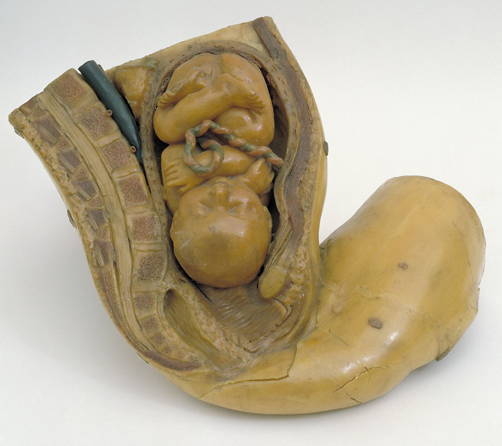 AuthorGiuseppe Ferrini and/or Clemente Susini [attr.]Description